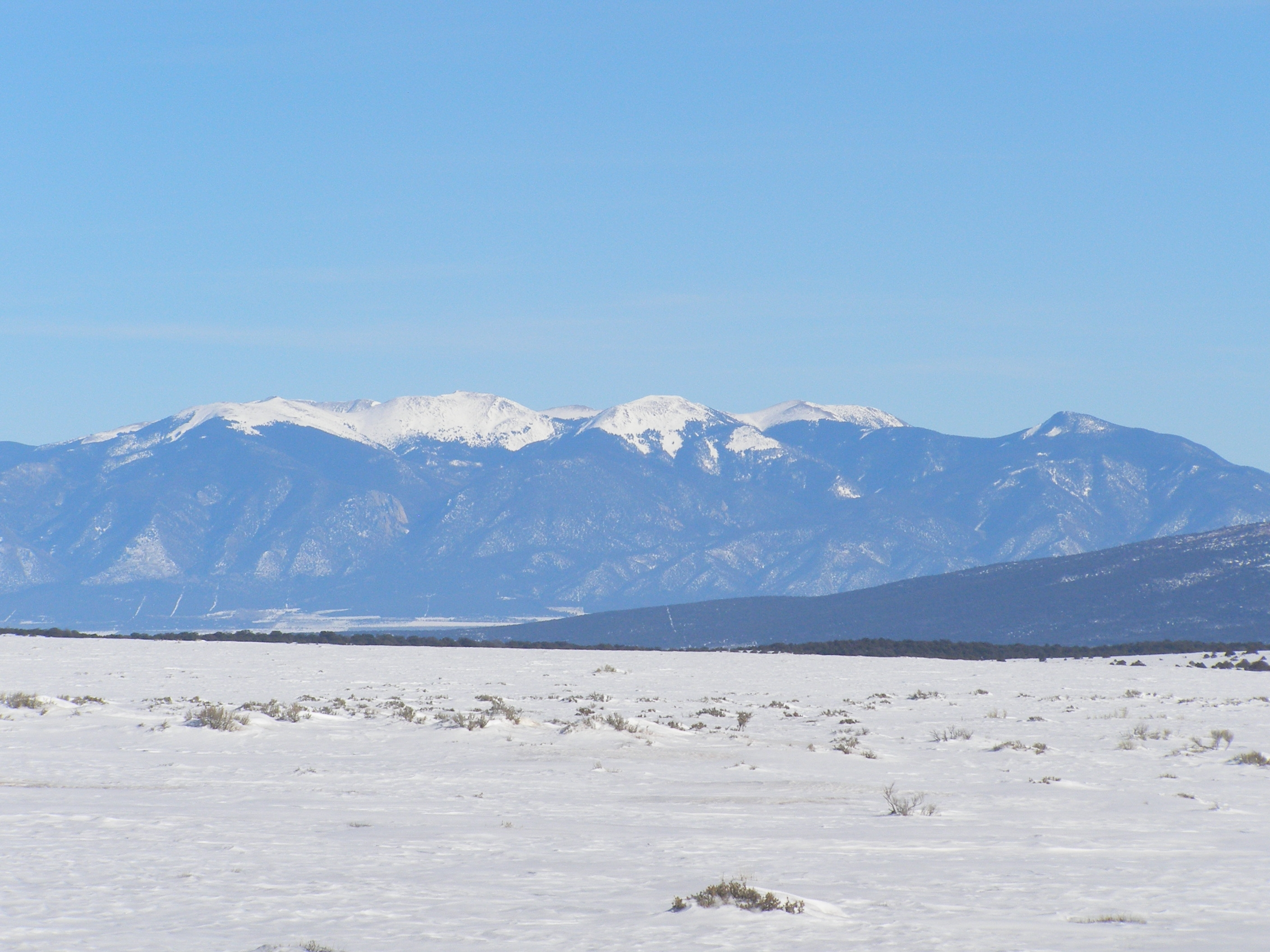 Latir Peak Wilderness area — in the Sangre de Cristo Mountains, within Carson National Forest, northern New Mexico. Taken from milepost 394 along US-285, 10 miles (16 km) north of Tres Piedras, and 14 miles (23 km) south of the New Mexico/Colorado border.